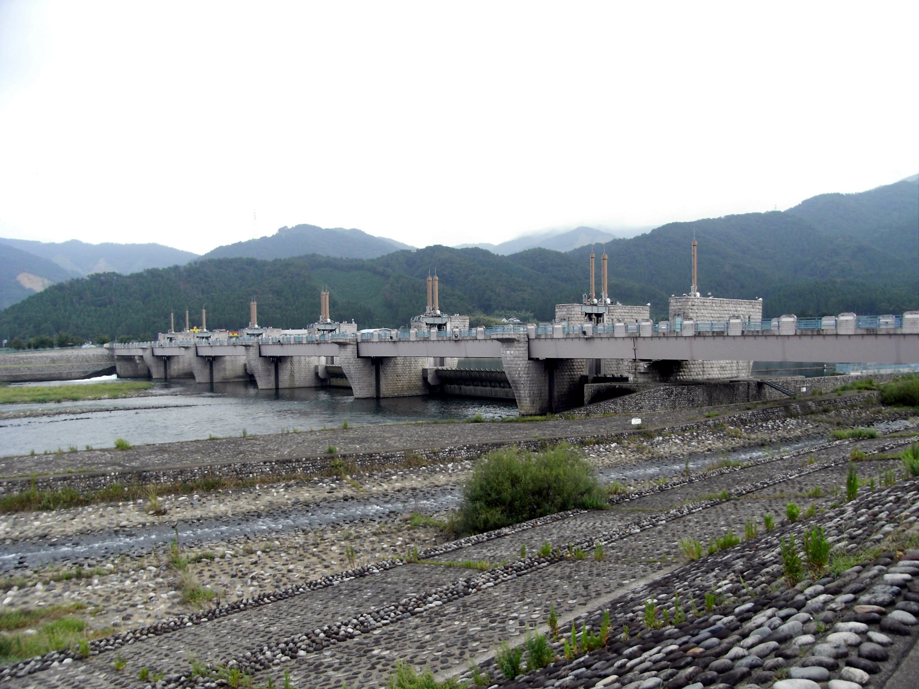 Kuzuryugawa-NarukaOzeki Weir(kuzuryugawa river/Fukui Pref./Japan)